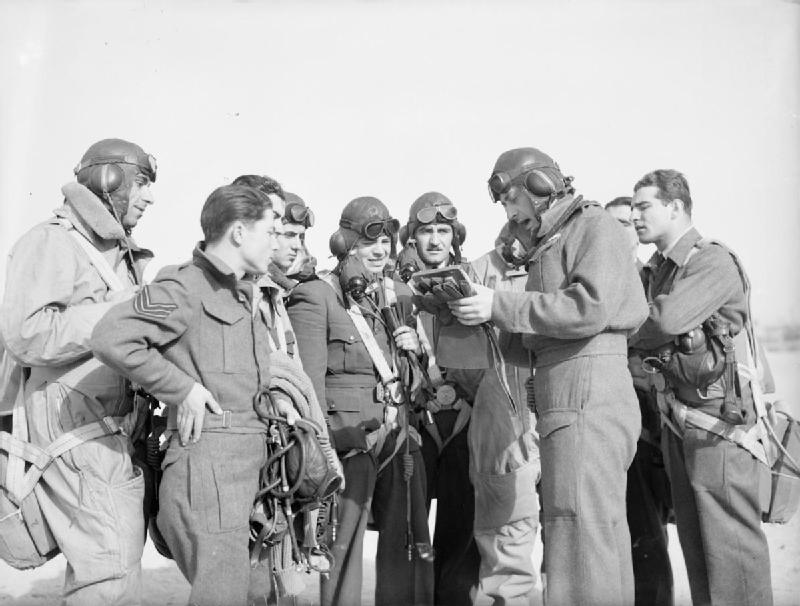 IWM caption : Major X F Varvaresos (standing, third from right), Commanding Officer of No. 335 (Hellenic) Squadron RAF, briefs his pilots before taking off on training sorties from Aqir, Palestine.